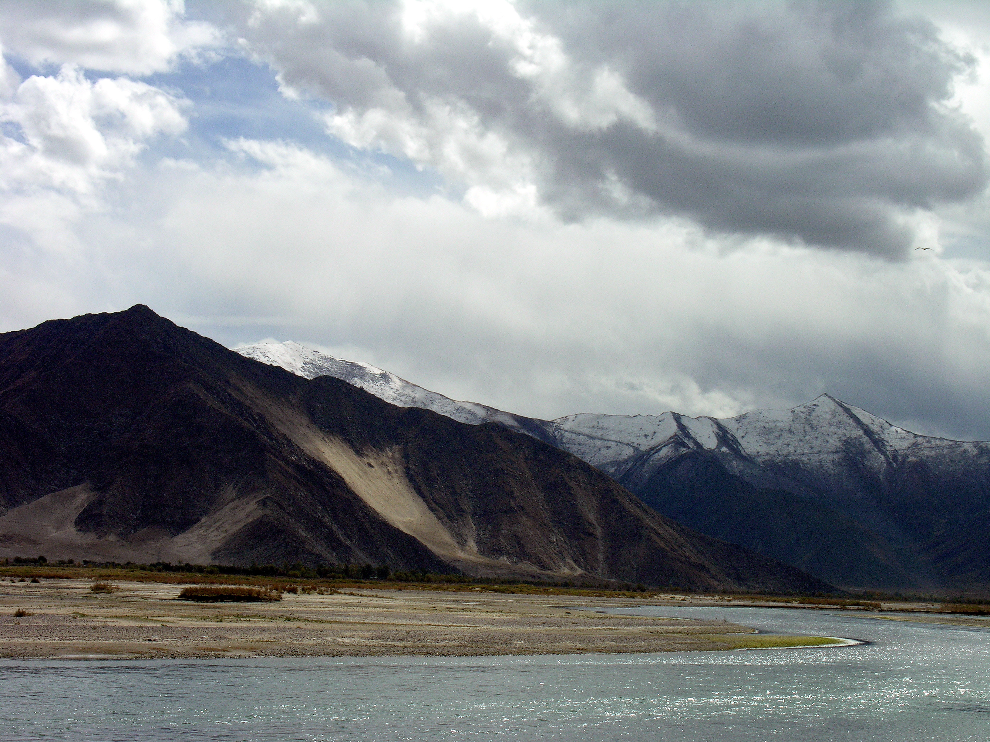 I spent the night in the same hotel and room I had before in Lhasa. Next morning it was off to the airport. This is the Lhasa River we drove beside much of the way. Lhasa, Made Explore #383 July 23, 2008 (another so, so picture makes explore, better ones were uploaded - Explore is in no way an indication of a good picture)